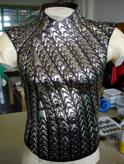 this is an image from the archive of movie costumes made by Patrick Whitaker & Keir Malem-Whitaker Malem, UK.